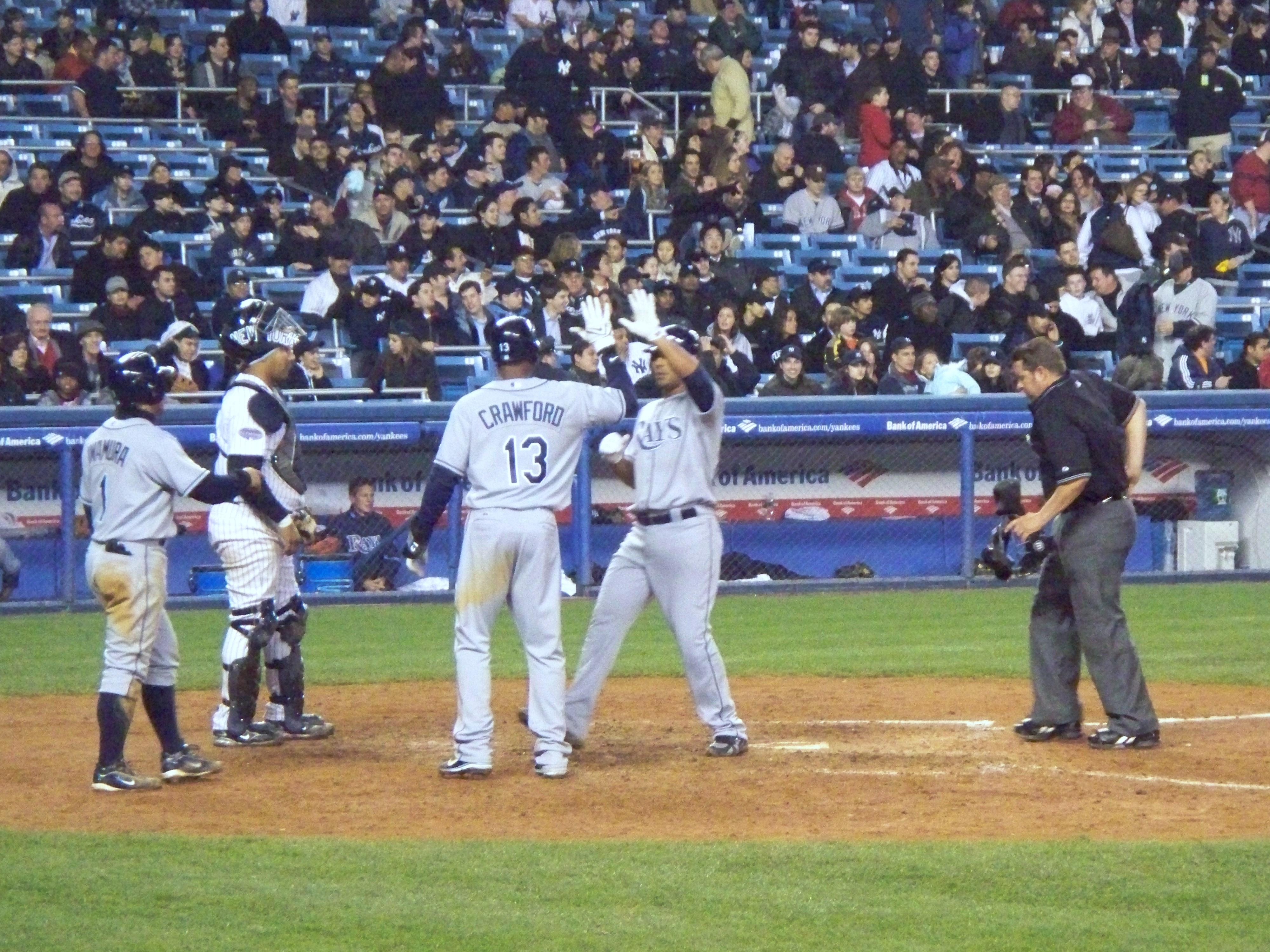 KOknockour920, Carlos Pena HR. 21:35, 16 April 2008 . . KOknockout920 . . 4,000×3,000 (2.52 MB)